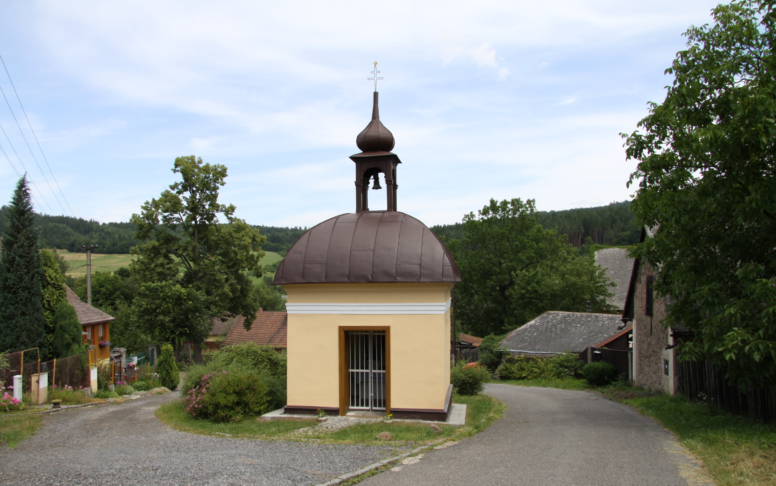 Čenkov village in Příbram District, Czech Republic. Chapel